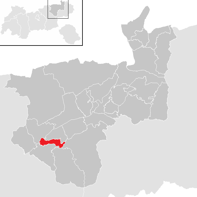 District Kufstein